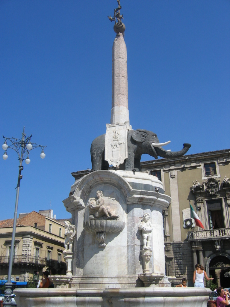 Catania (Italy) - The elephant fountain. Picture by Urban. Body: Canon Powershot A80. Date: August, 2005